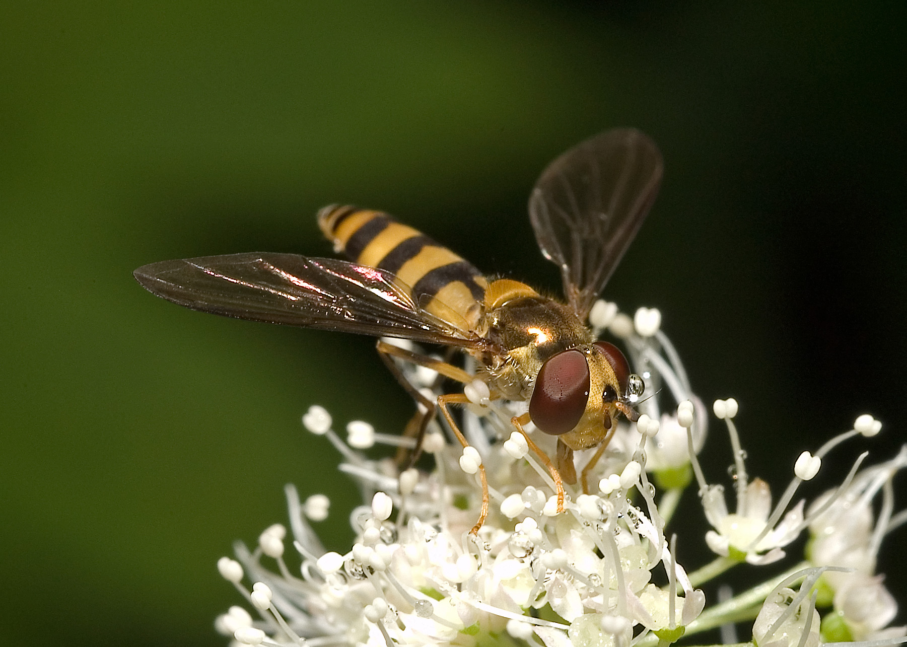 Please report references to kulacgmx.at.